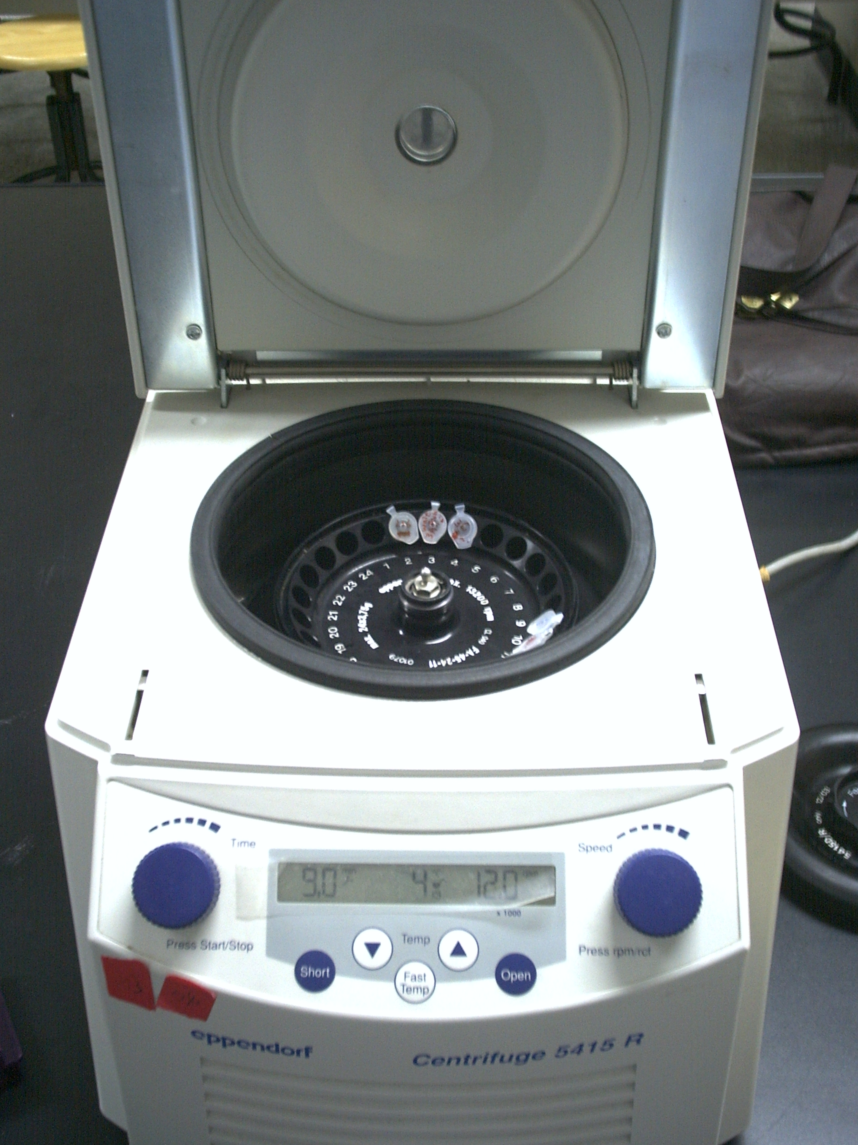 centrifuge